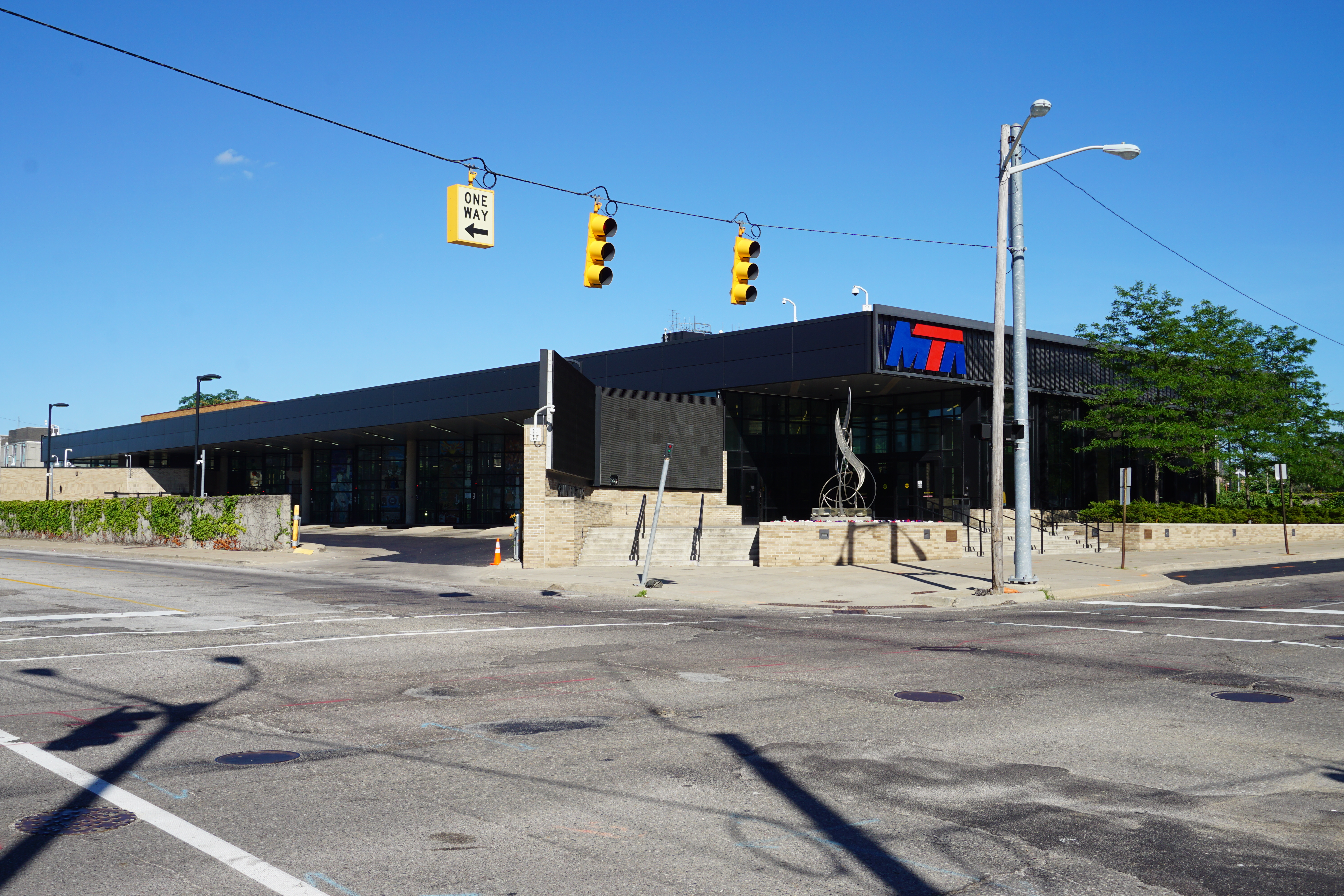 The MTA Transit Center in Flint, Michigan (United States).